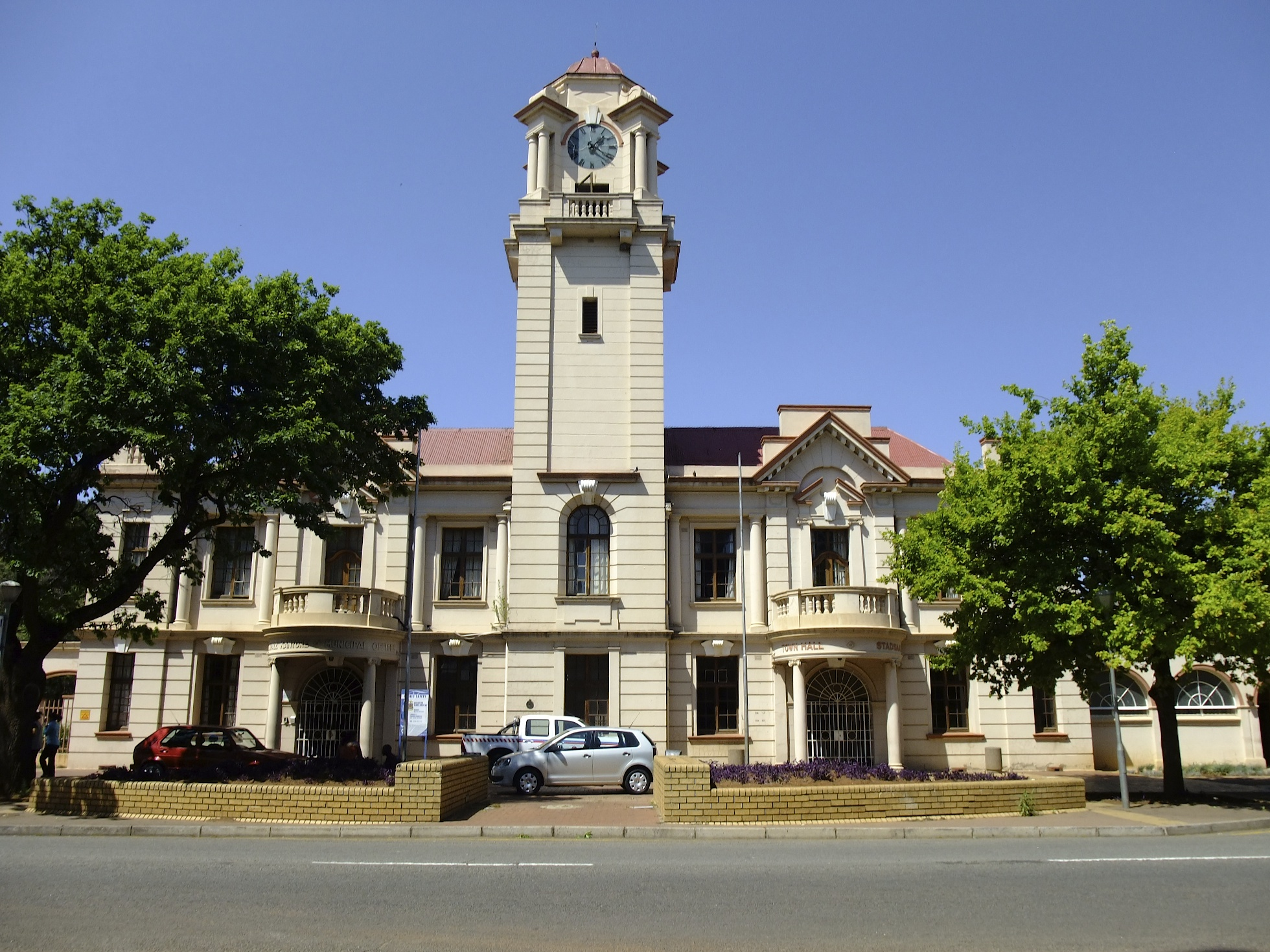 Town Hall, Walter Sisulu Avenue, Potchefstroom This media shows a South African Protected Site with SAHRA file reference 9/2/256/0020.